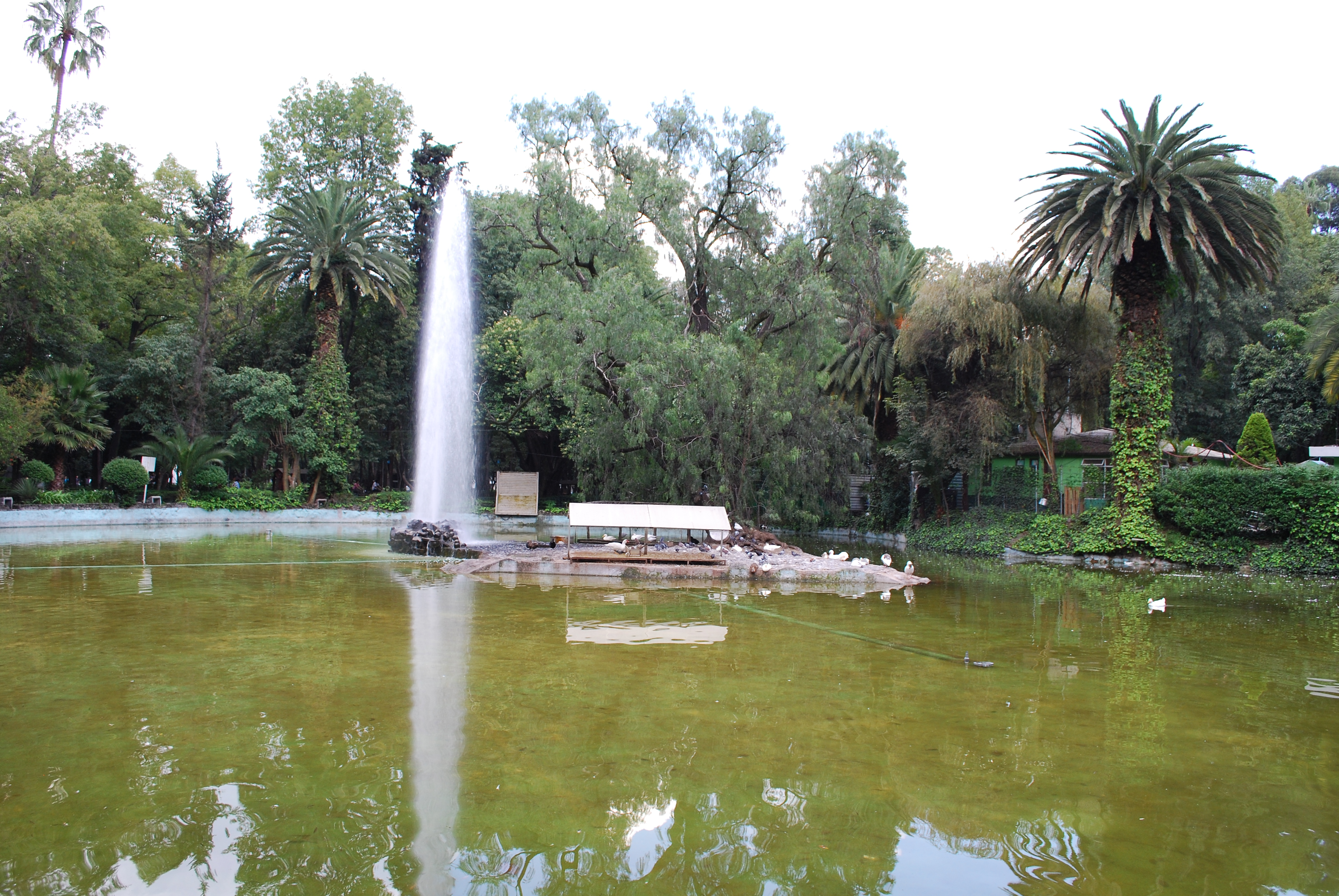 View of the pond with fountain in Parque Mexico in Mexico City